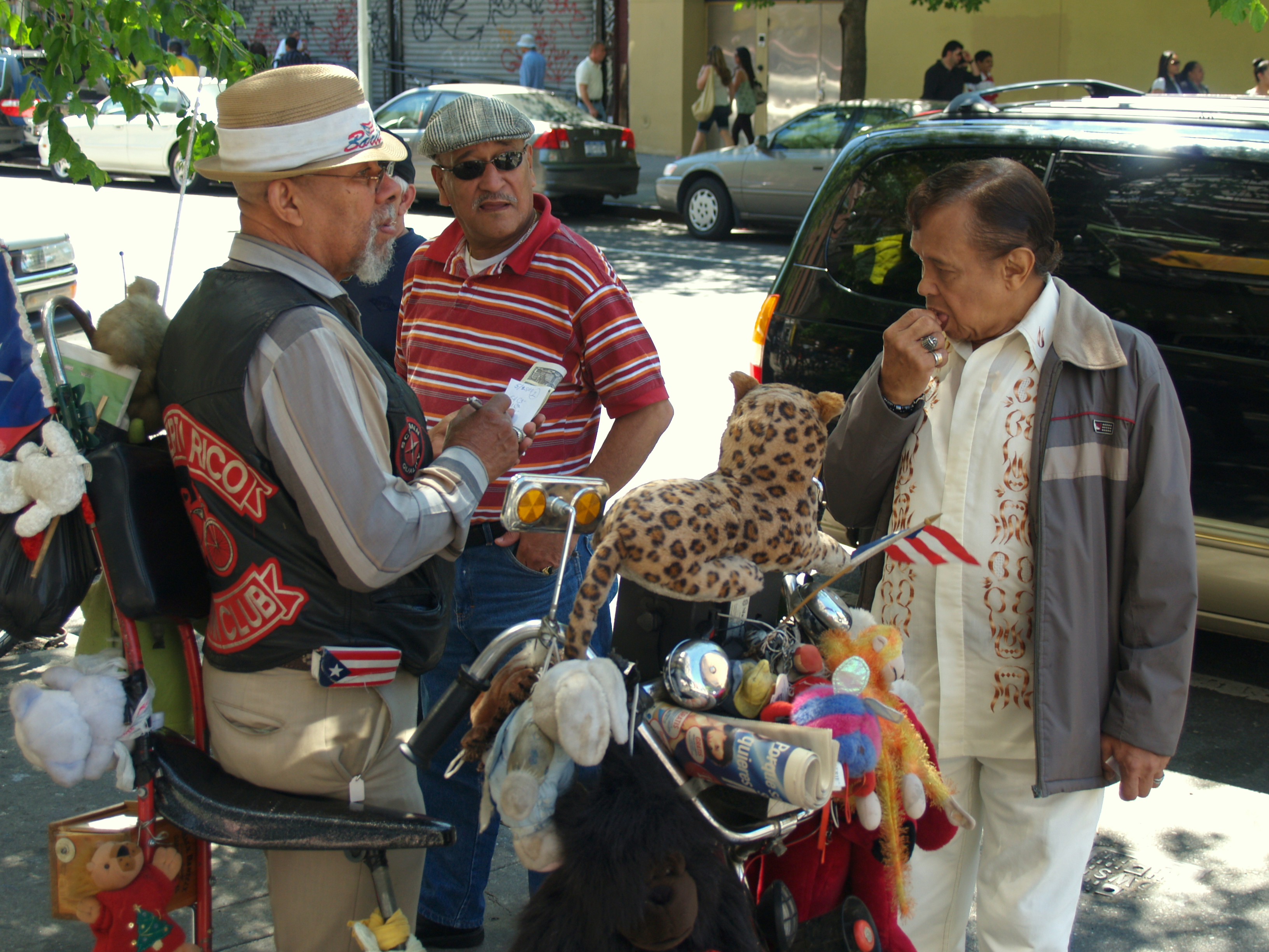 Gentlemen talk on Avenue C between 4th Street and 5th Street in Loisaida in the East Village of New York City.